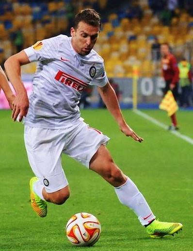 Hugo Campagnaro